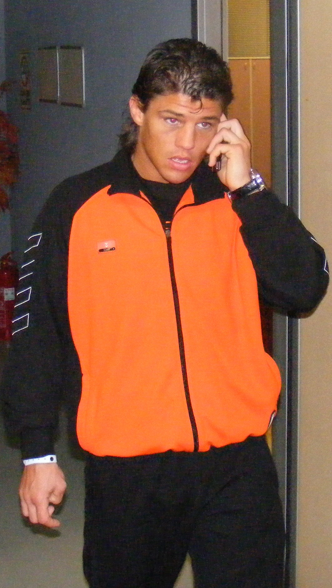 Albert Kraus also attended to event via his fighter Jordi v.d.Sluijs. This picture was surely taken by myself during K-1 Fighting Network Turkey 2007. I give permission to Wikipedia's usage.